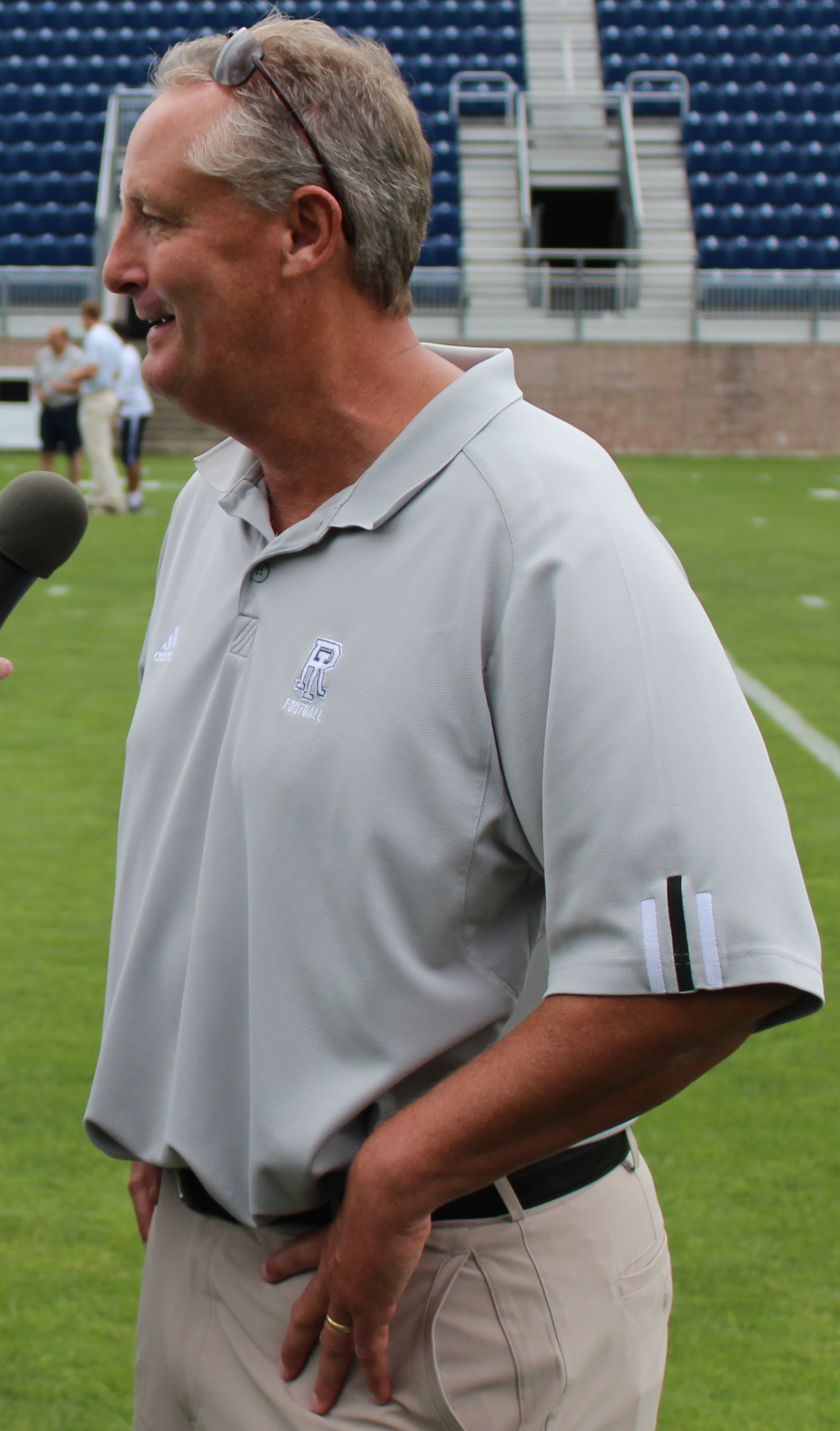 Chuck Wilson interviews Jim Fleming at Meade Stadium in Kingston, Rhode Island in 2014.